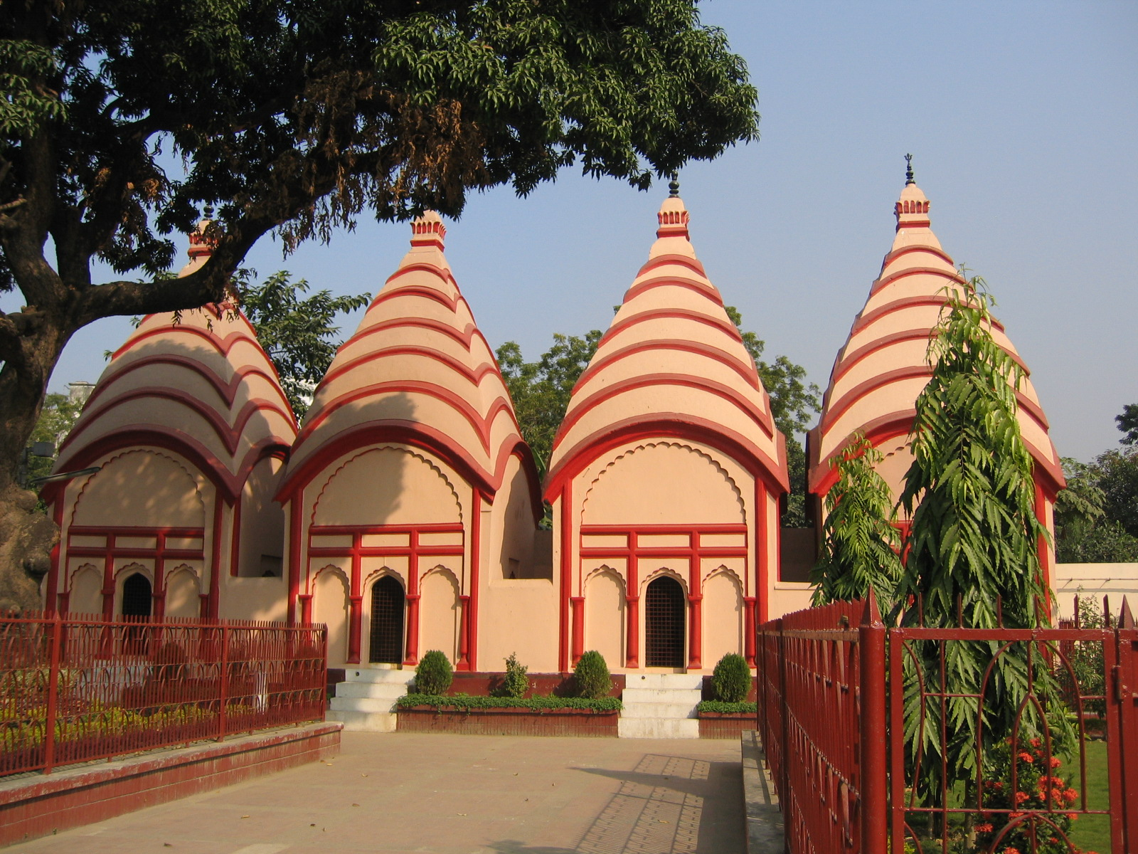 Shiva temple structures inside Dhakeshwari Temple